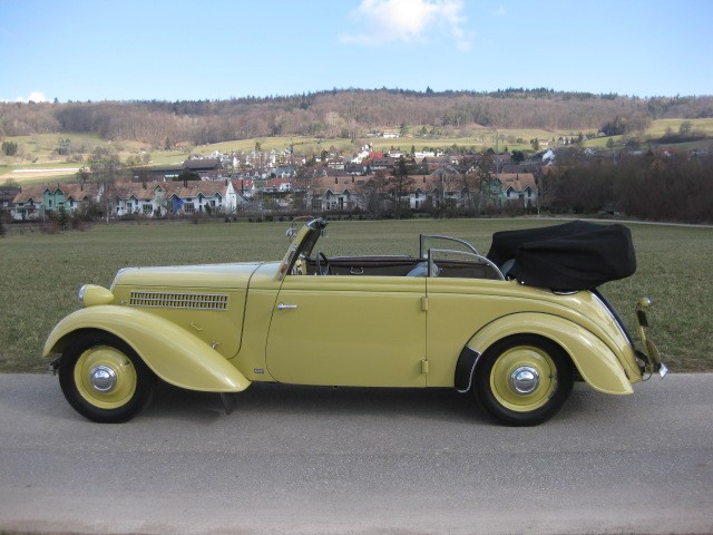 Adler Trumpf 1.7 Liter EV Karmann 1937